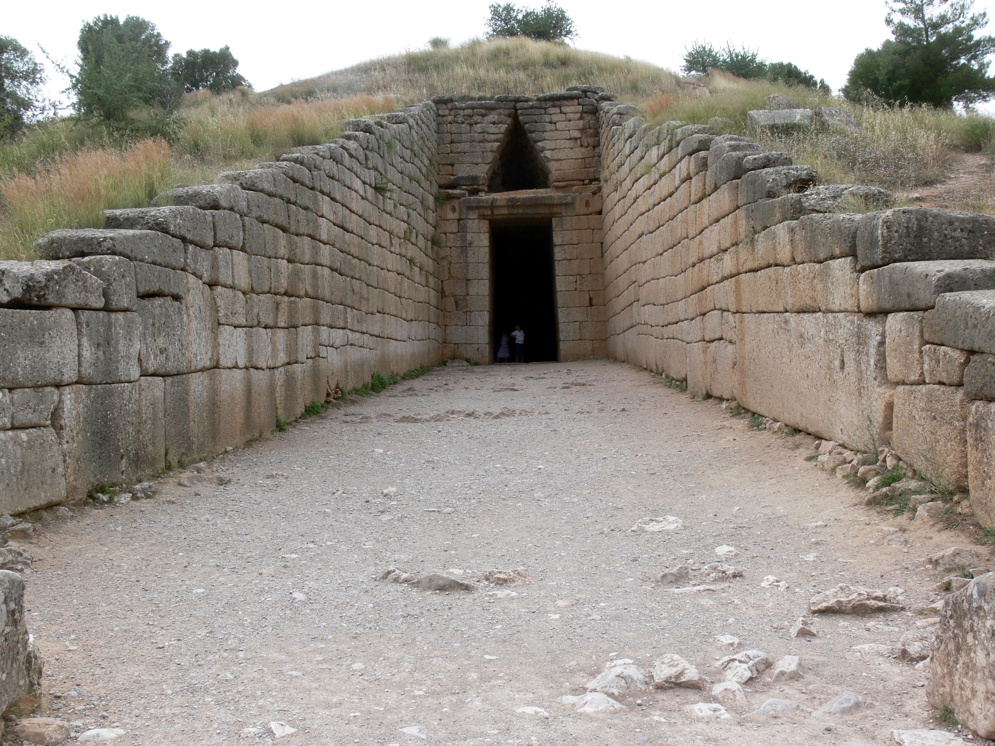 Corbelled arch, Treasury of Atreus, Mykene, Greece.